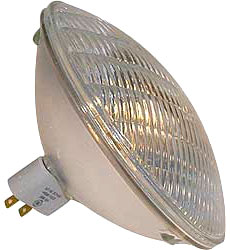 PAR headlamp